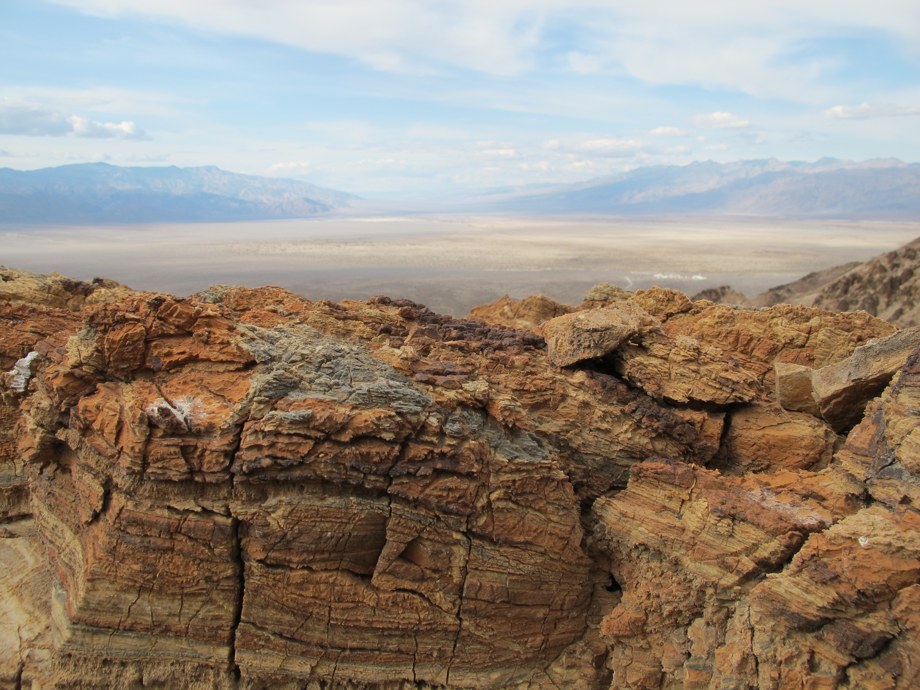 Death Valley as seen from a promontory at this location. Looking North.